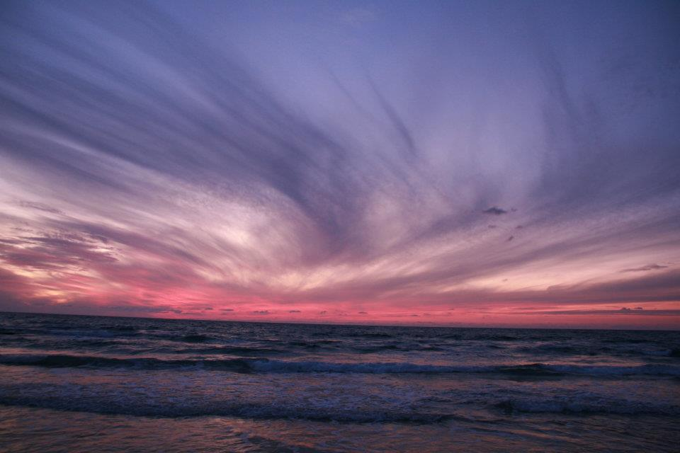 Geography of Israel